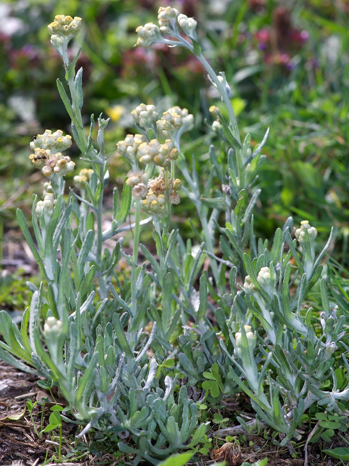 Helichrysum luteoalbum (Jersey Cudweed)